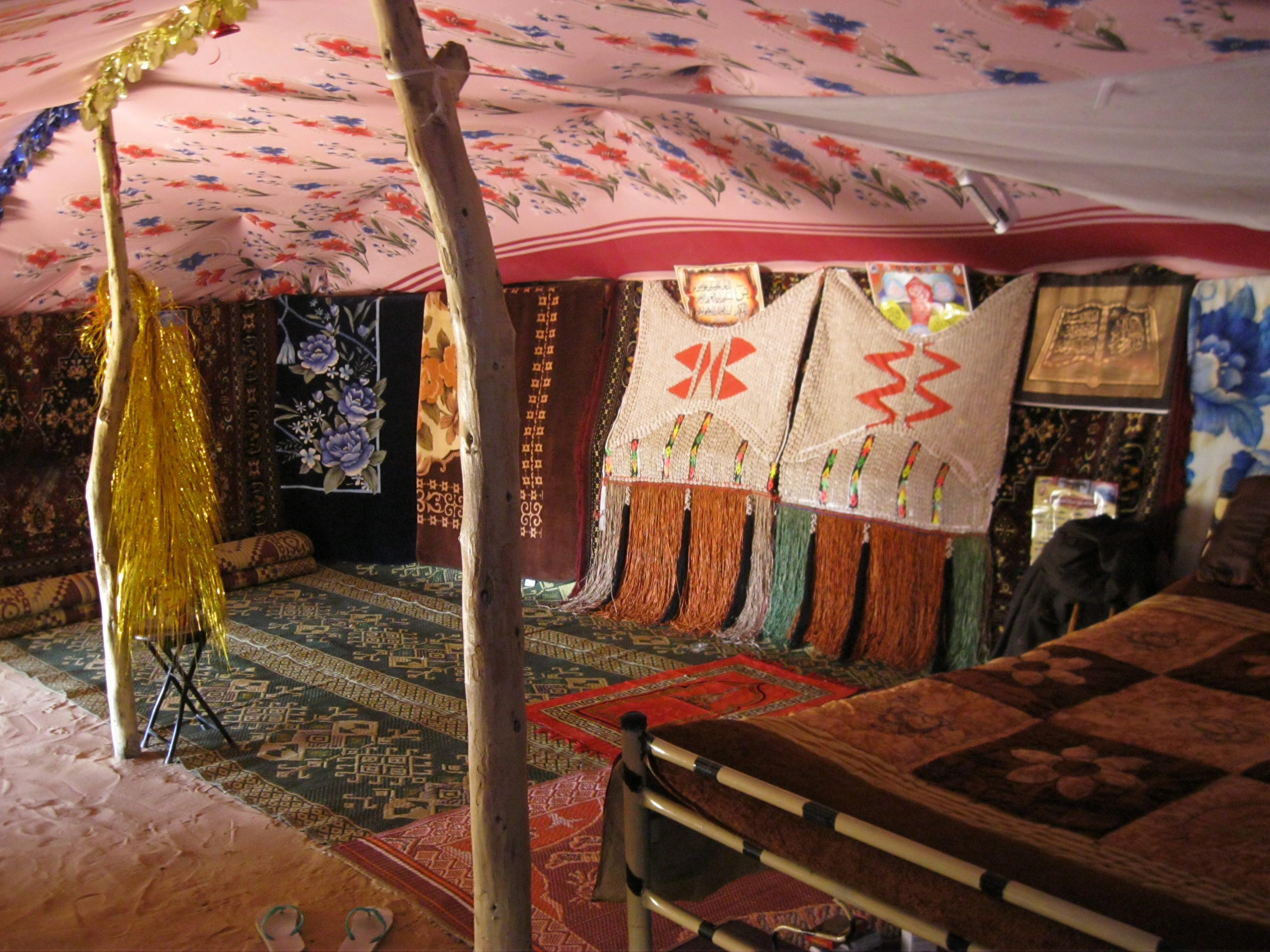 Interior of a Mahria nomads house in North Darfur